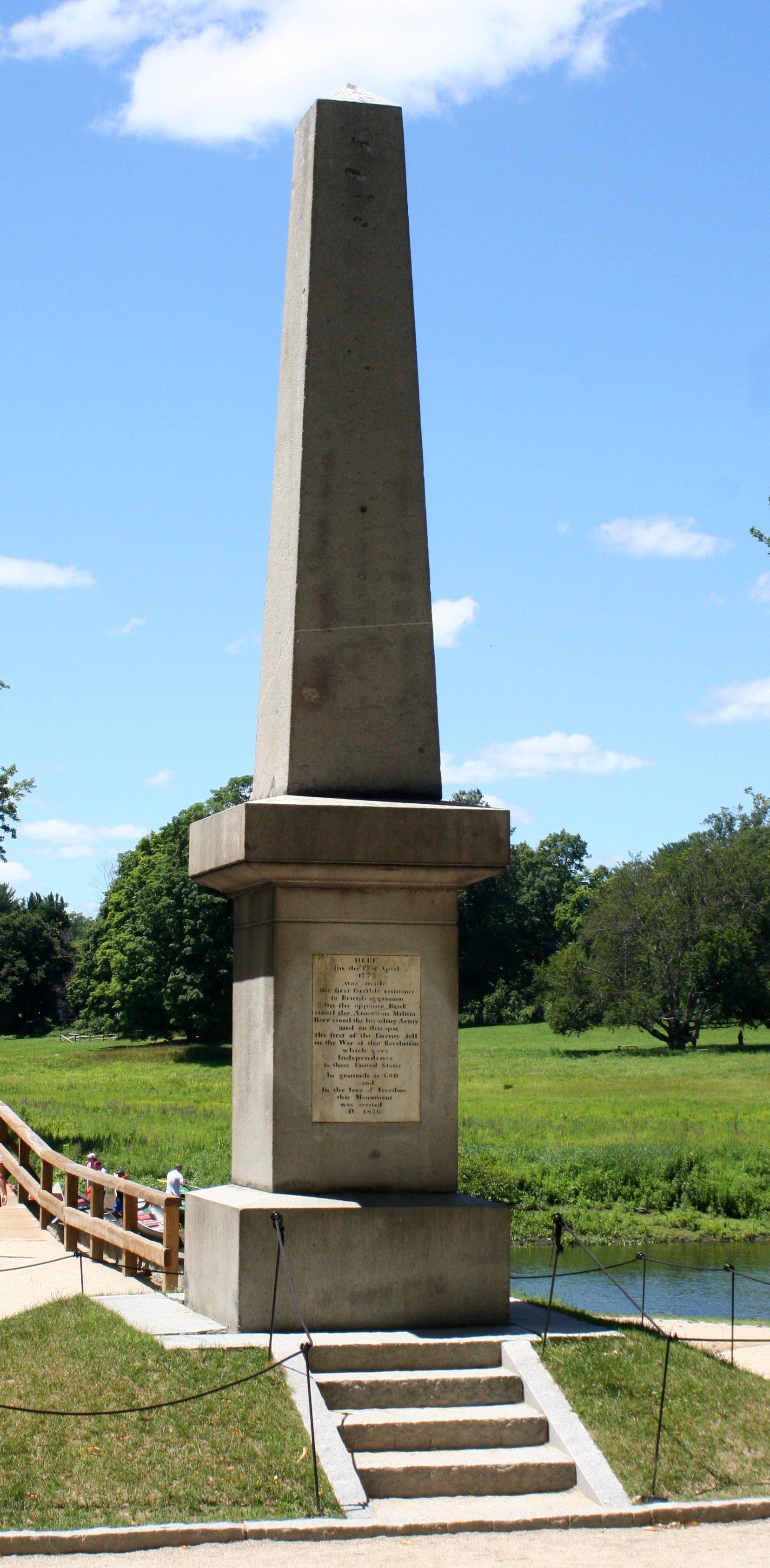 Memorial obelisk at the Old North Bridge, Concord, Massachusetts.